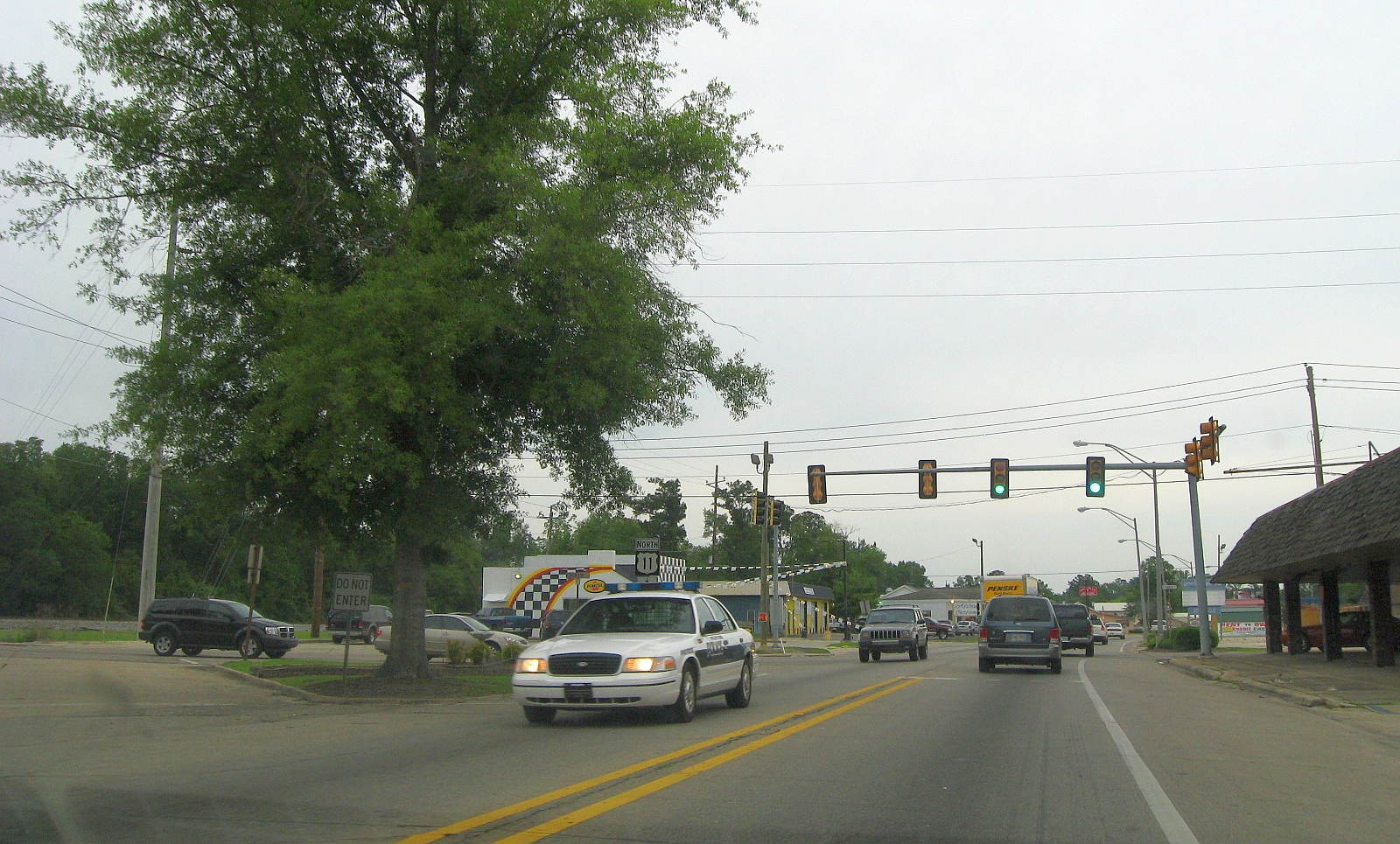 Corner of Highway 11 & Fourth Street in Picayune, MS